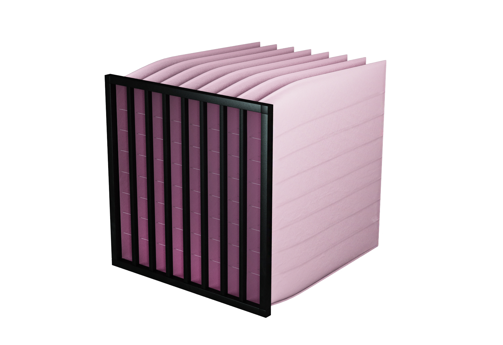 Pocket filter